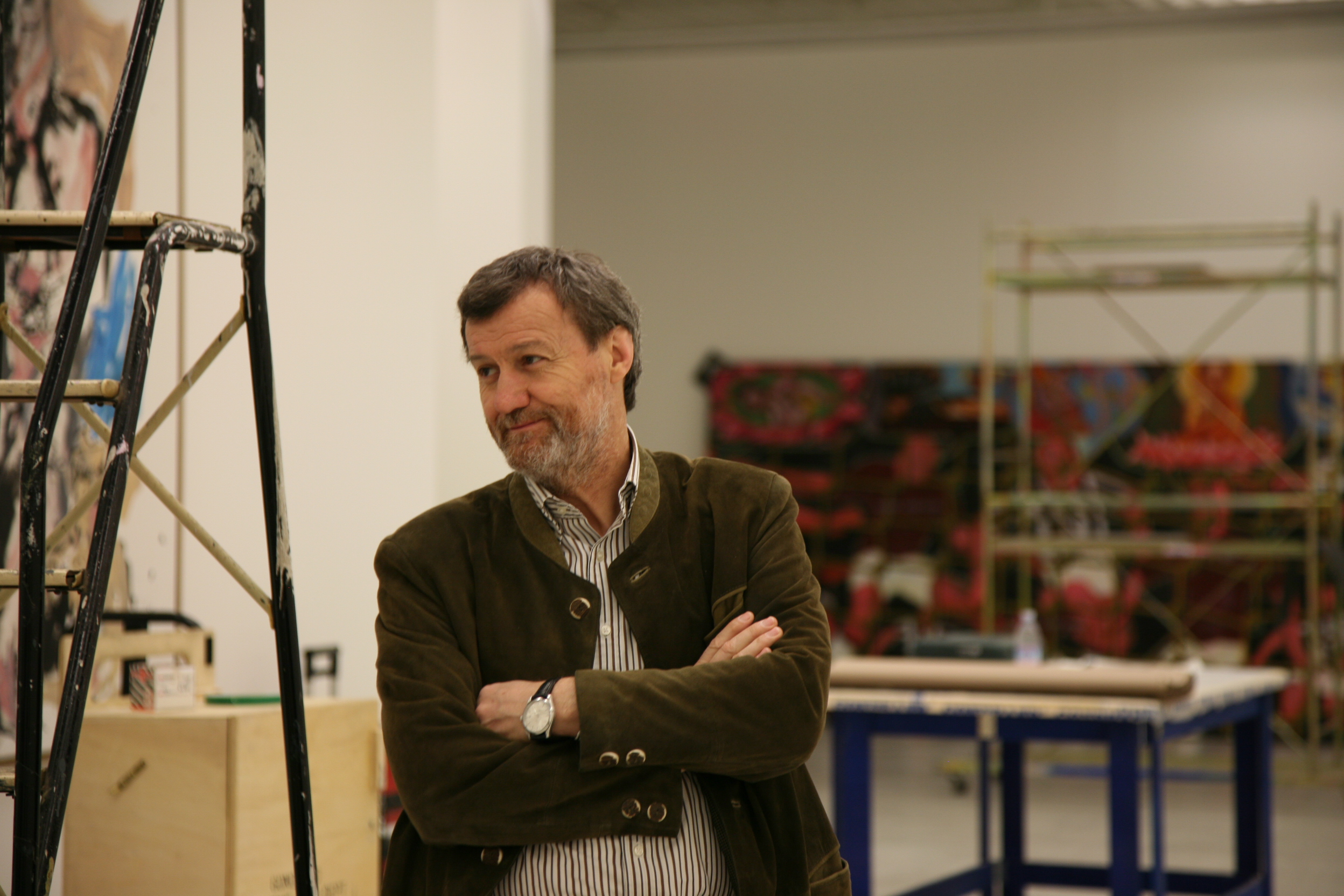 Danilo Eccher installing HEROES exhibition.